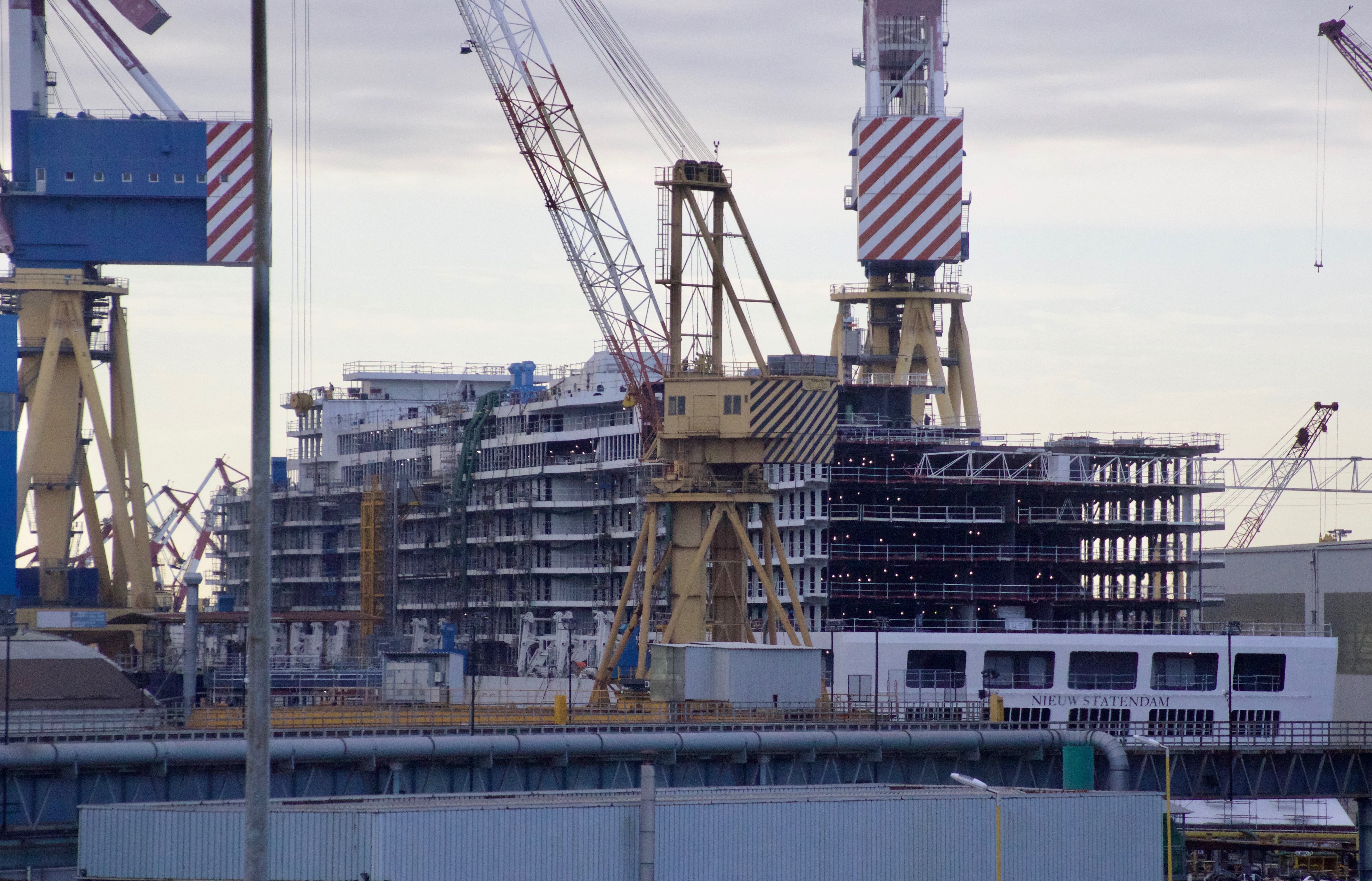 A view of MS Nieuw Statendam under construction, taken from the Via della Liberta, Venice, Italy on September 18, 2017.